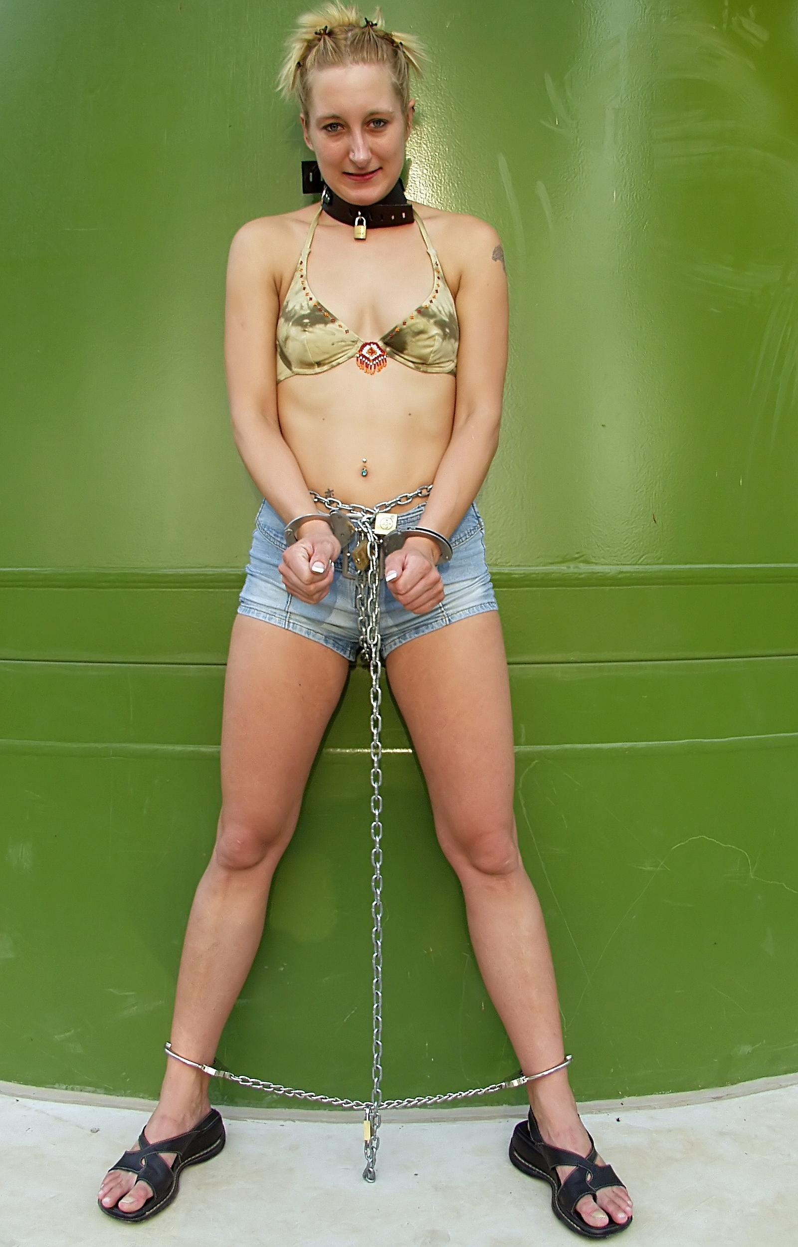 Photomodel Jassi in handcuffs and legirons